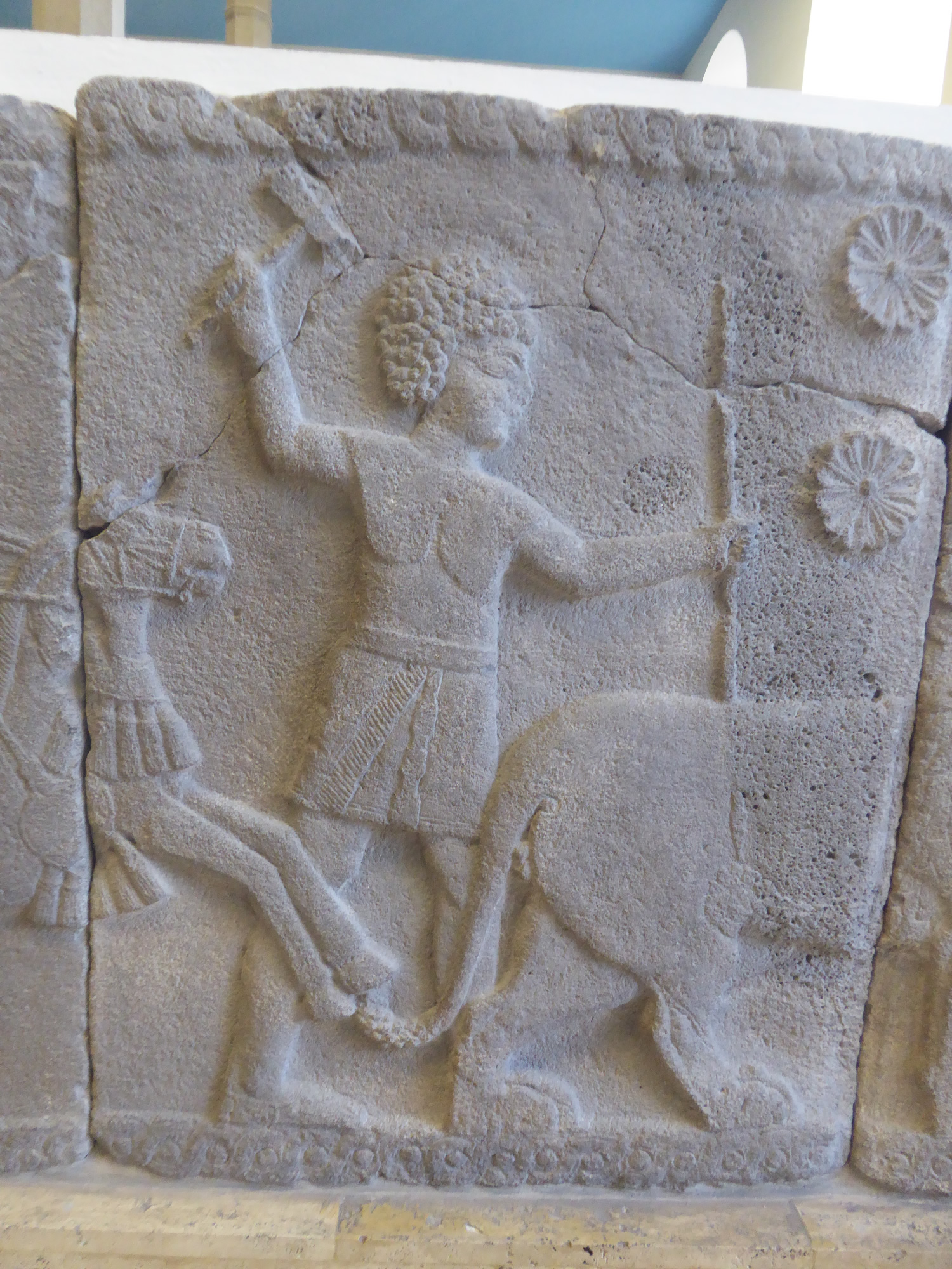 Relief found at the palace at Sakçagözü (Turkey), about 750 BC. Part of a lion hunt